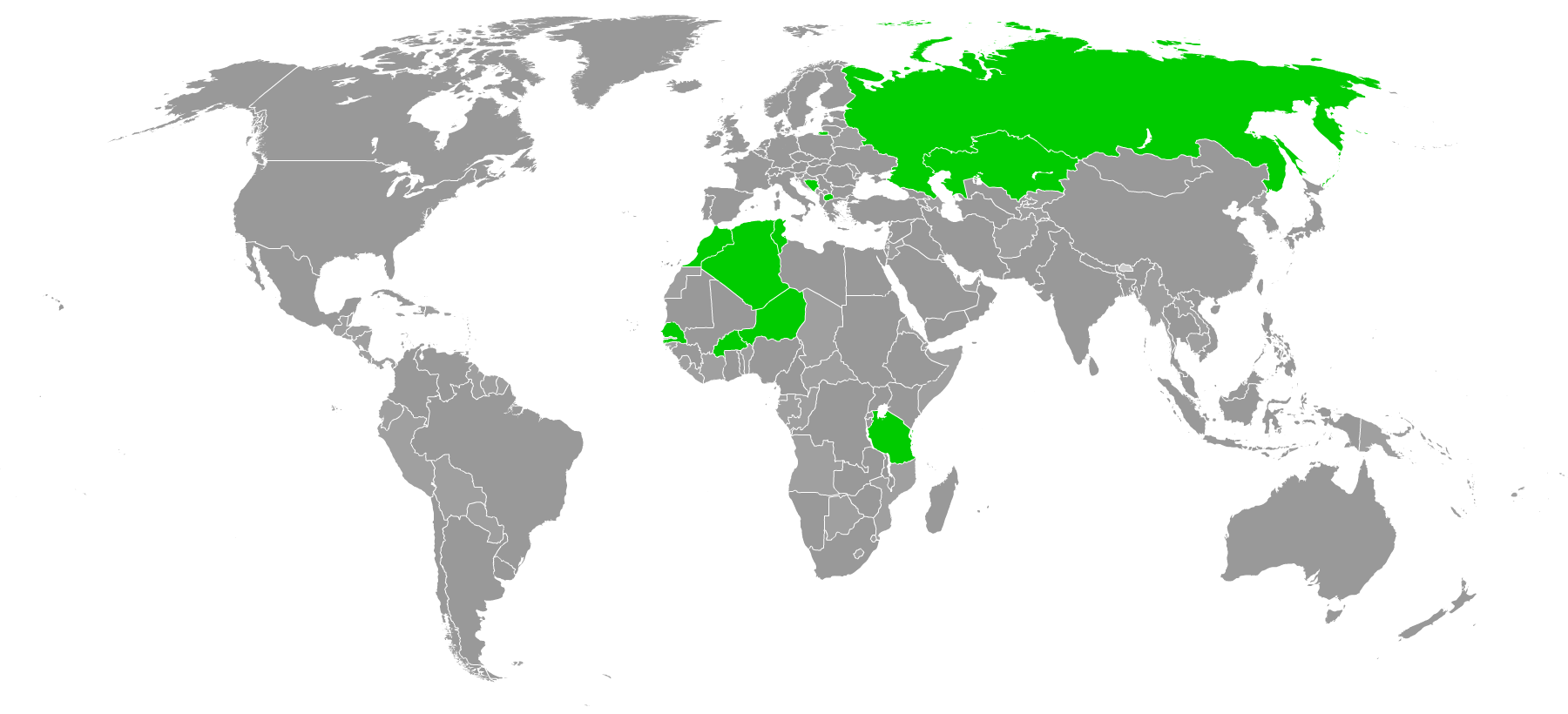 World map showing the countries where the name Amina is popular. Green color means the name is among the 100 most popular names either in the population or among newborns. Map created using GunnMap and data from multiple sources. This map was created with GunnMapGunnMap was created by Arthur Gunn and is available, free, at and attribute by linking to